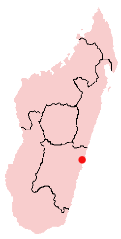 Mananjary, Madagascar Location Map; created with the GIMP. Made by User:Acntx.